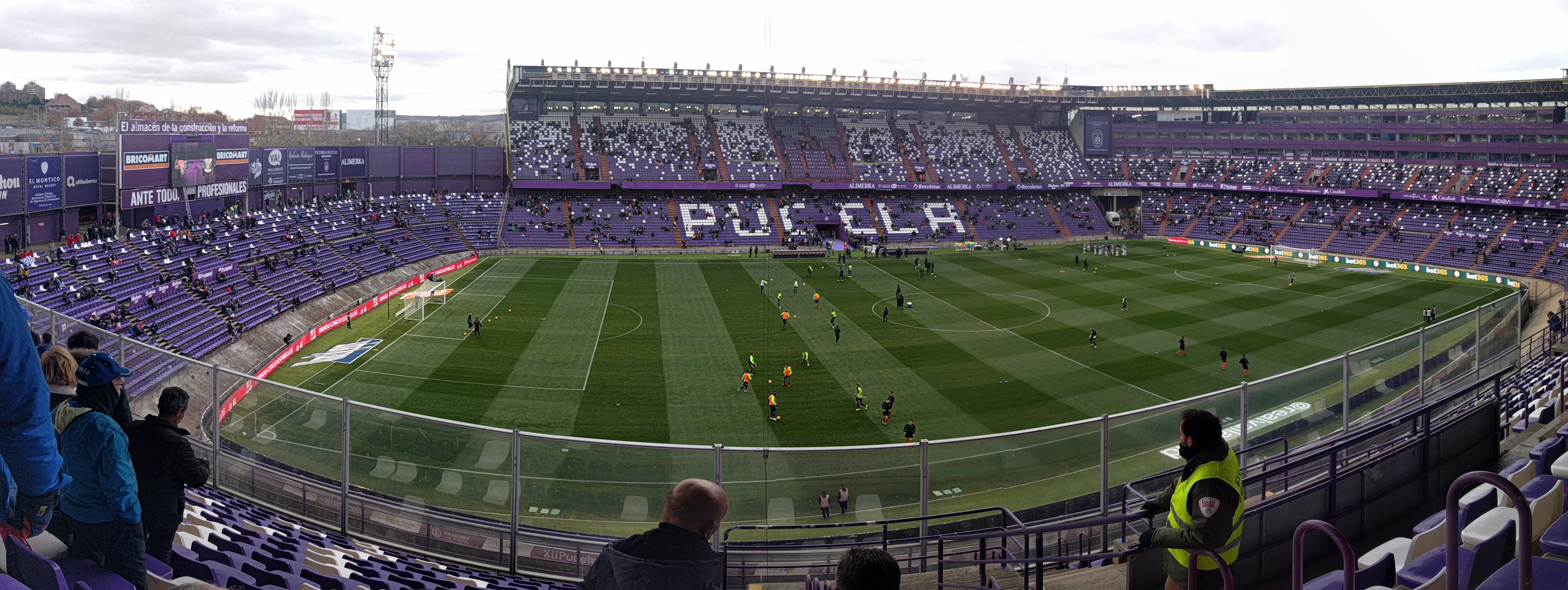 Match of Primera División, LaLiga 2018-19, Real Valladolid CF 2:4 CD Leganés, Nuevo Zorrilla